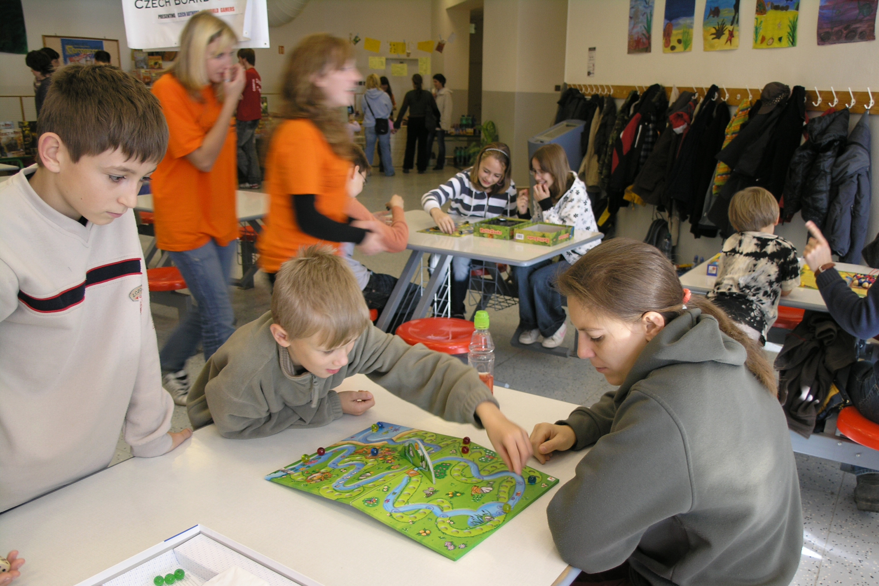 Personality rights warning Although this work is freely licensed or in the public domain, the person(s) shown may have rights that legally restrict certain re-uses unless those depicted consent to such uses. In these cases, a model release or other evidence of consent could protect you from infringement claims.